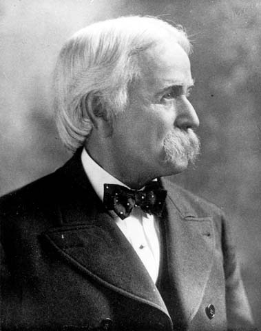 Portrait of Almon Harris Thompson taken in 1902.